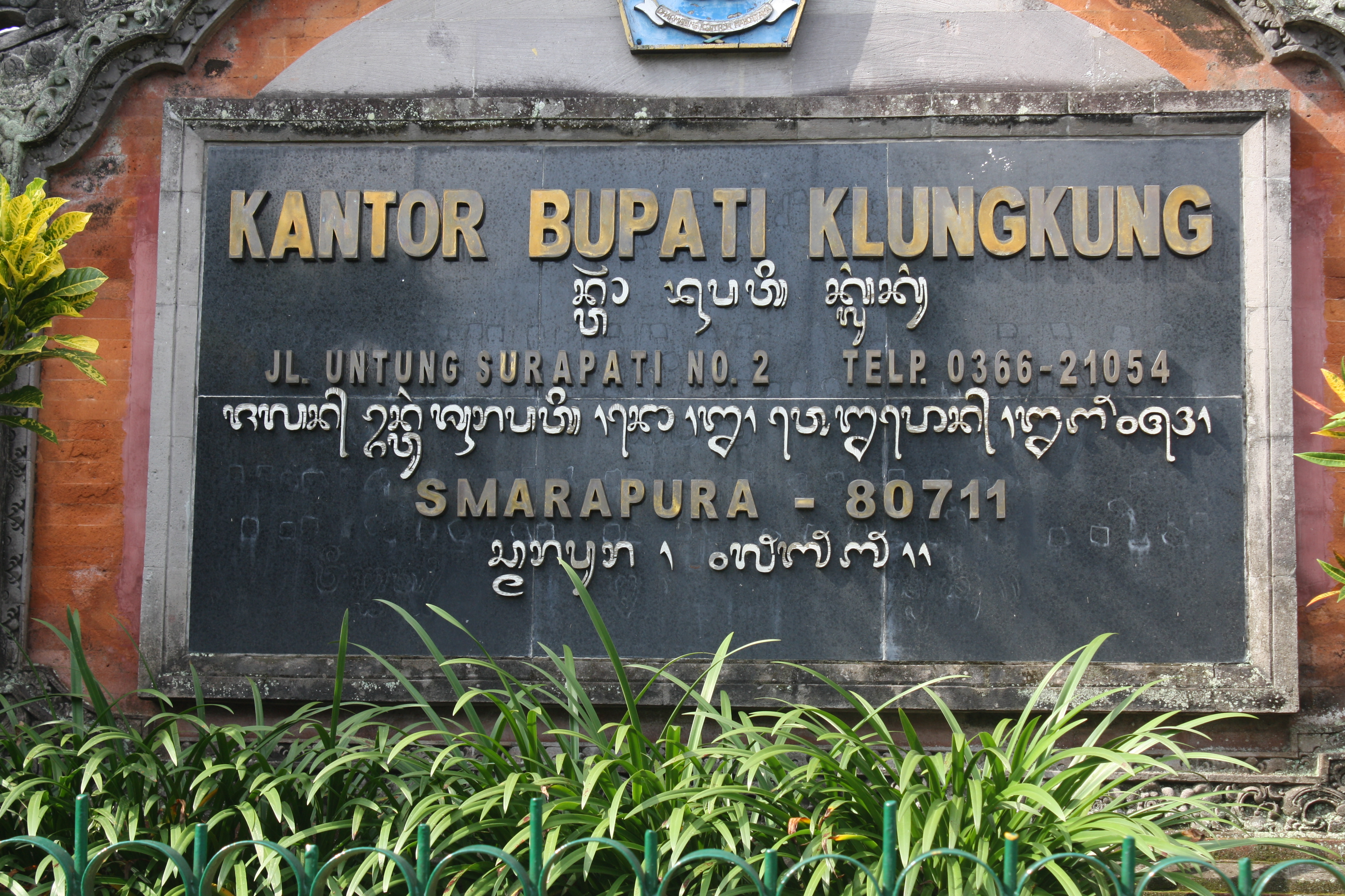 Taken near the Klungkung Royal Complexes, Klungkung, Bali